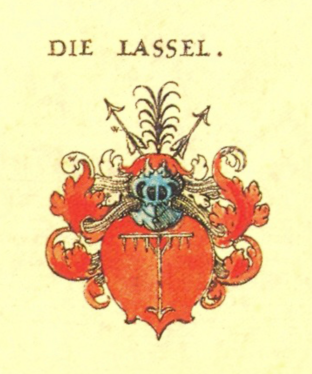 Coat of arms of Lassel (Lessel)